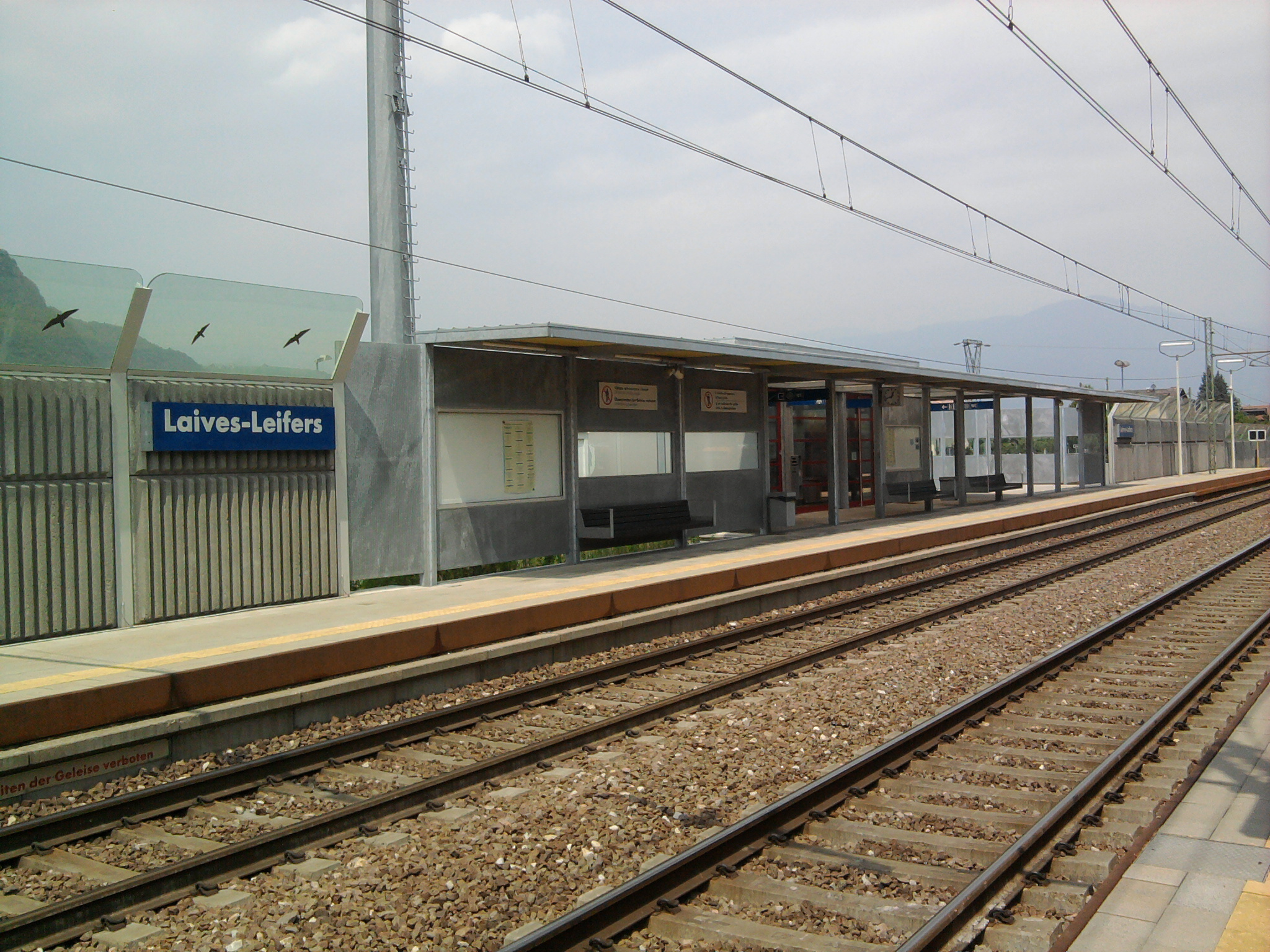 Railway station of Laives-Leifers, South Tyrol, Italy